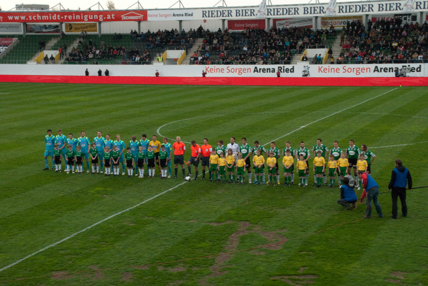 SV Ried und SK Sturm Graz before playing the National Cup Semifinal 2010.